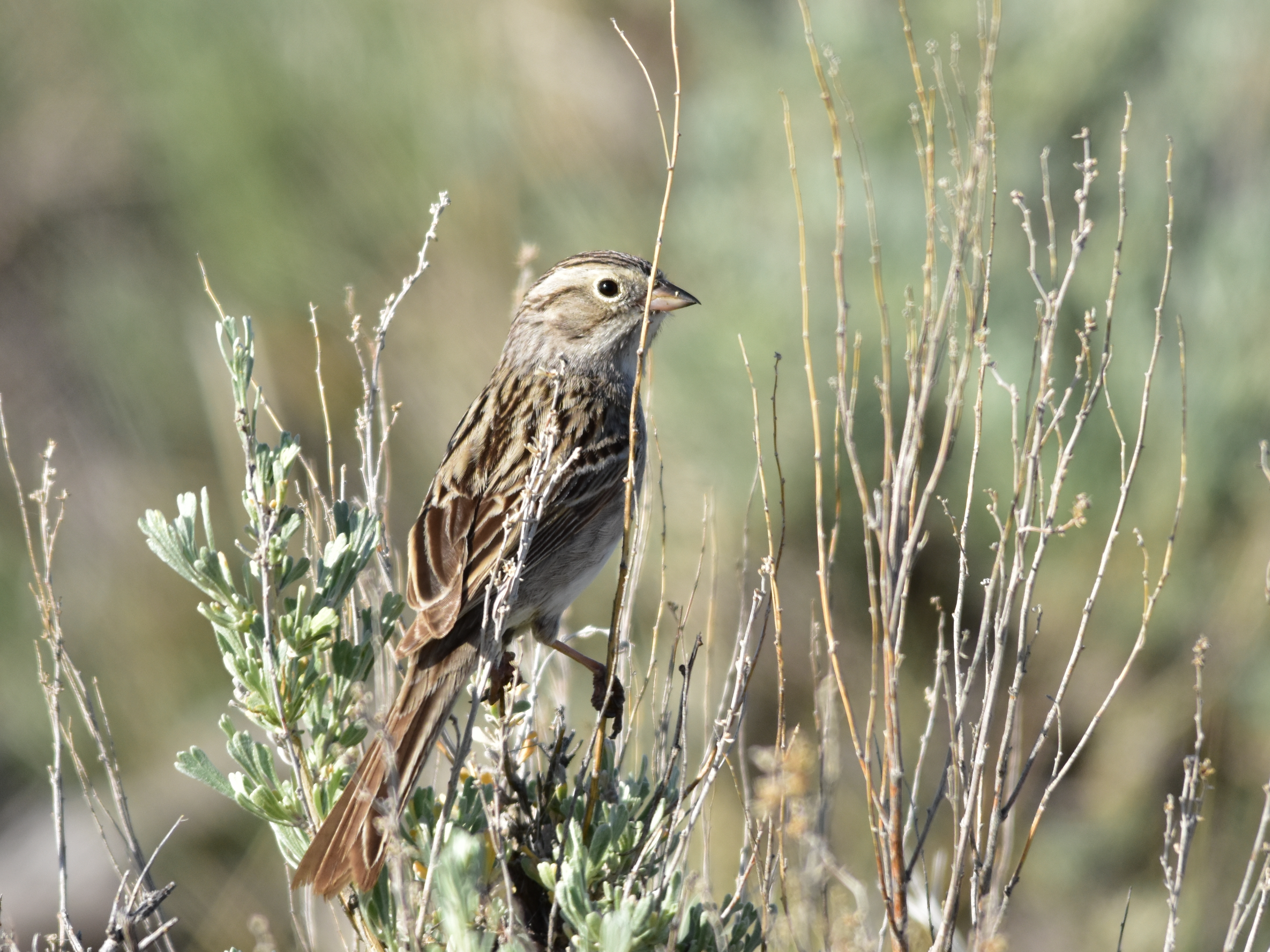 A Brewer's sparrow perched on a Wyoming big sagebrush at Seedskadee NWR in Wyoming. Photo: Tom Koerner/USFWS